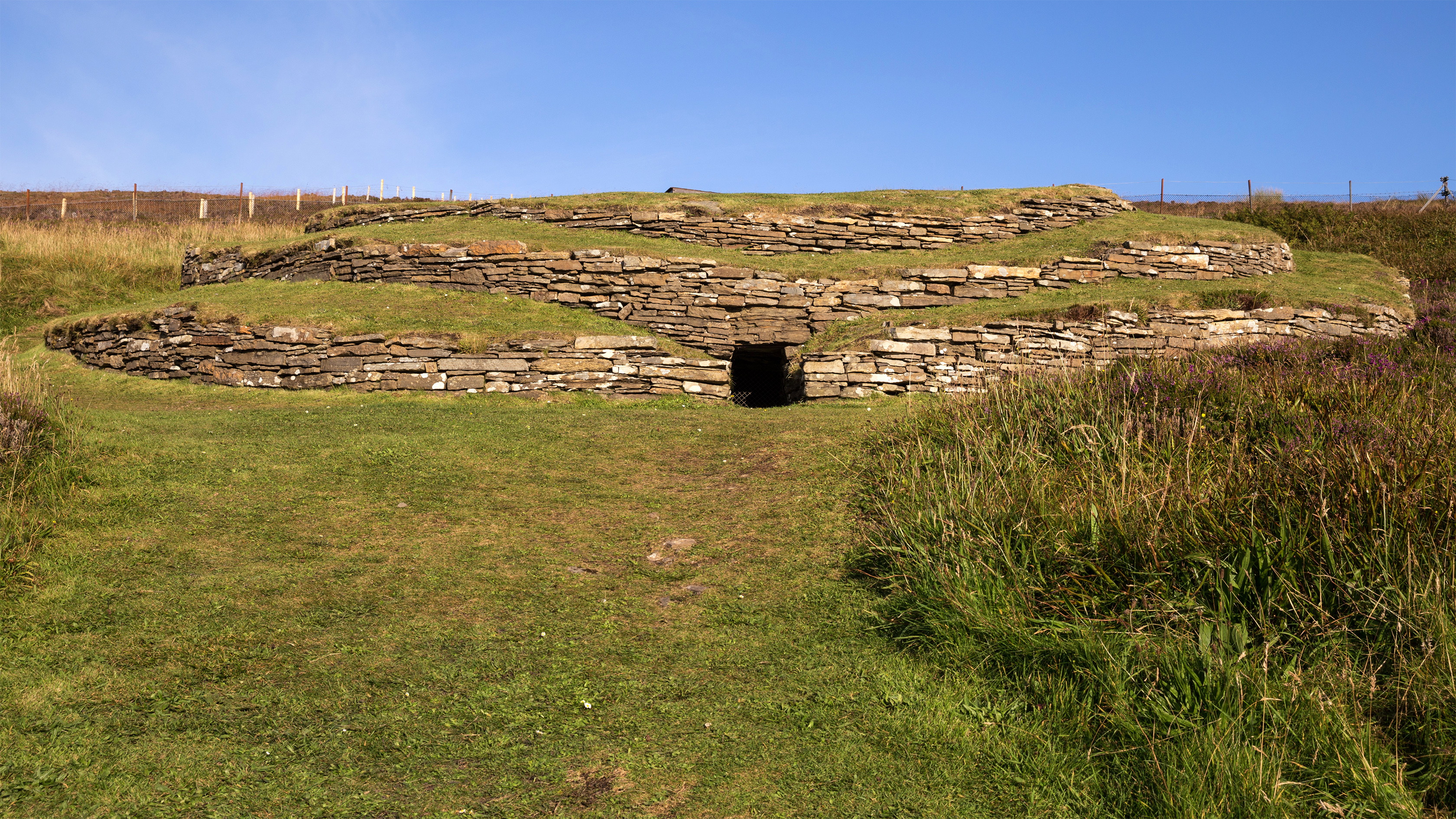 Wideford Hill Cairn, chambered tomb in Mainland (Orkney Islands, Scotland)